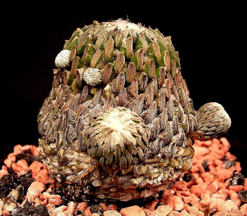 Pelecyphora asseliformis